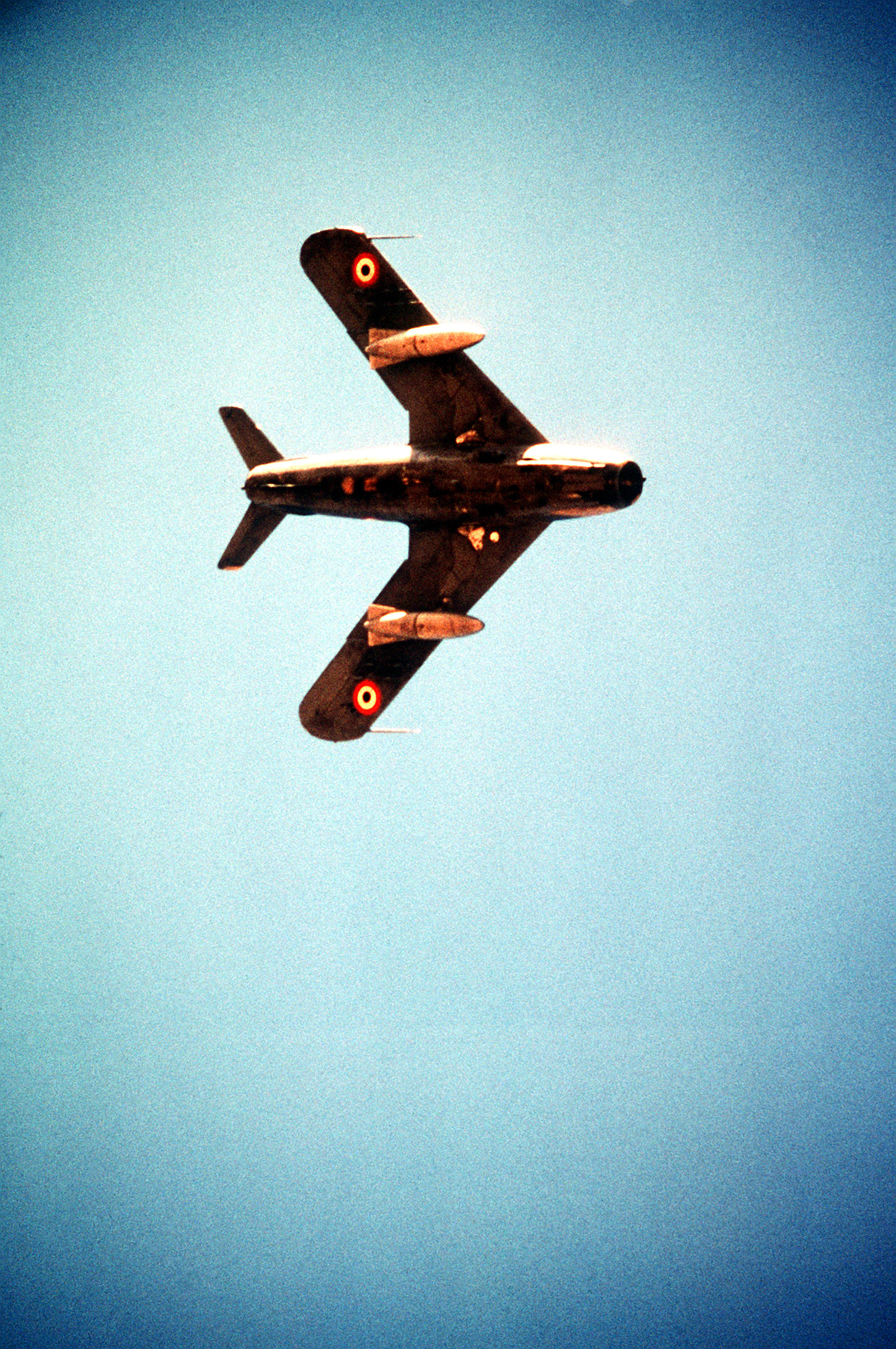 An underside view of an Egyptian (Soviet built) MiG-17 aircraft in flight.